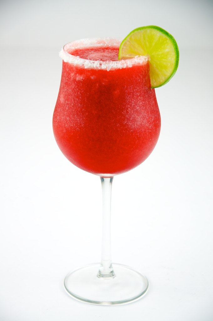 Strawberry Daiquiri with lime in a hurricane glass on a salted rim